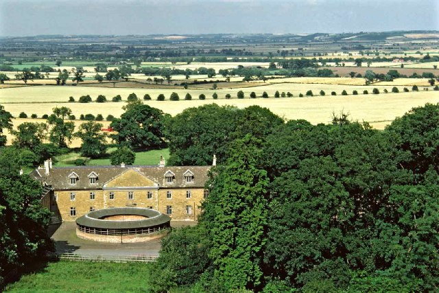 View from Belvoir Castle, showing the stables and the exercise ring.